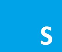 Logo of Albanian Health Portal